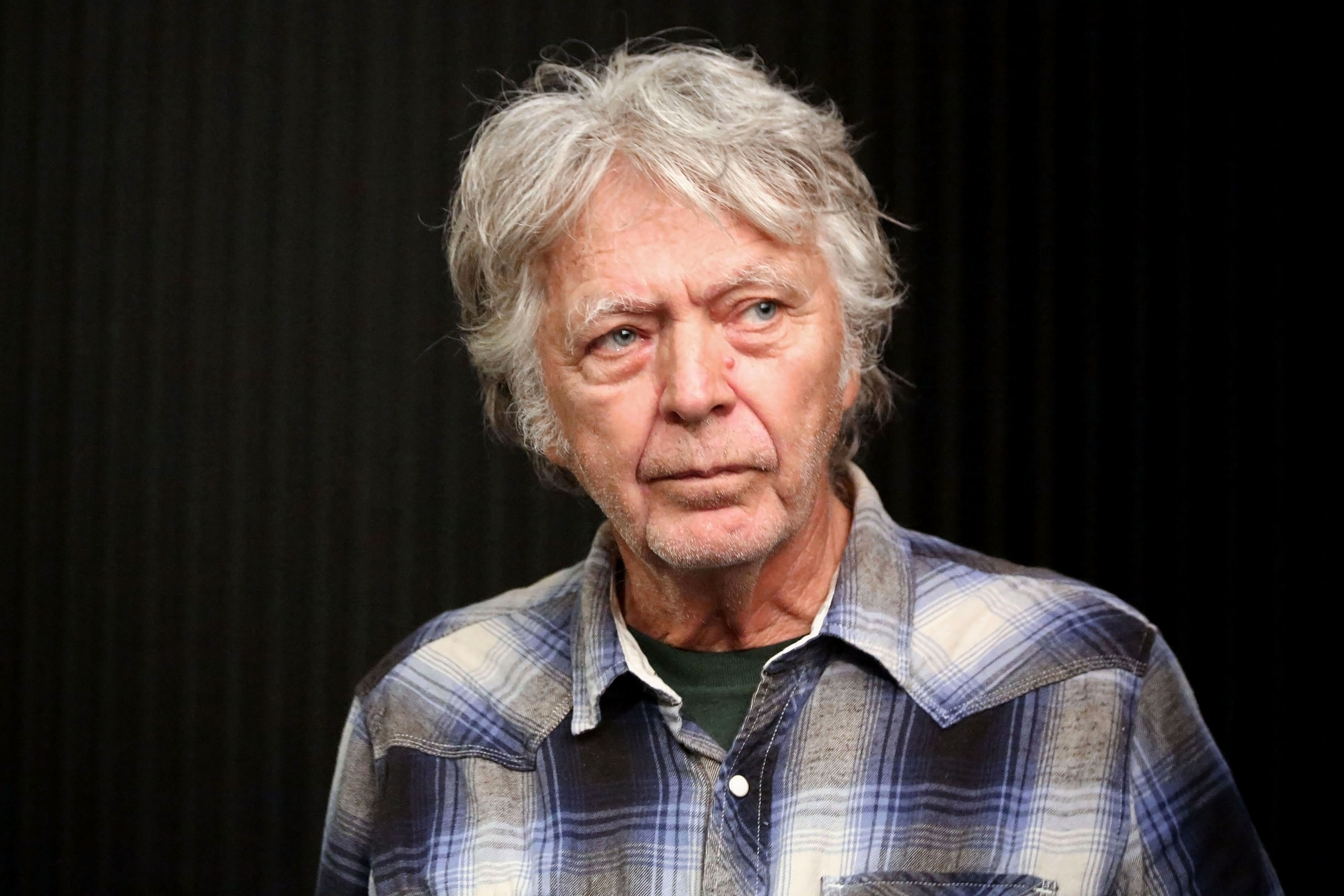 James Benning presenting Easy Rider (2012) at Vienna International Film Festival 2012 (Austrian Film Museum).